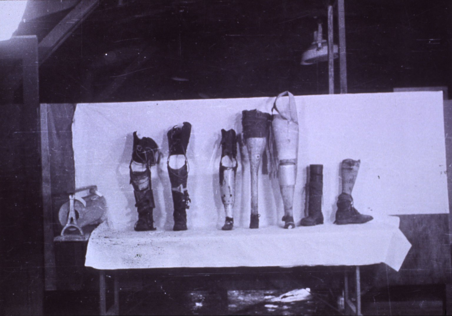 the work of the U.S. Army in the Philipines